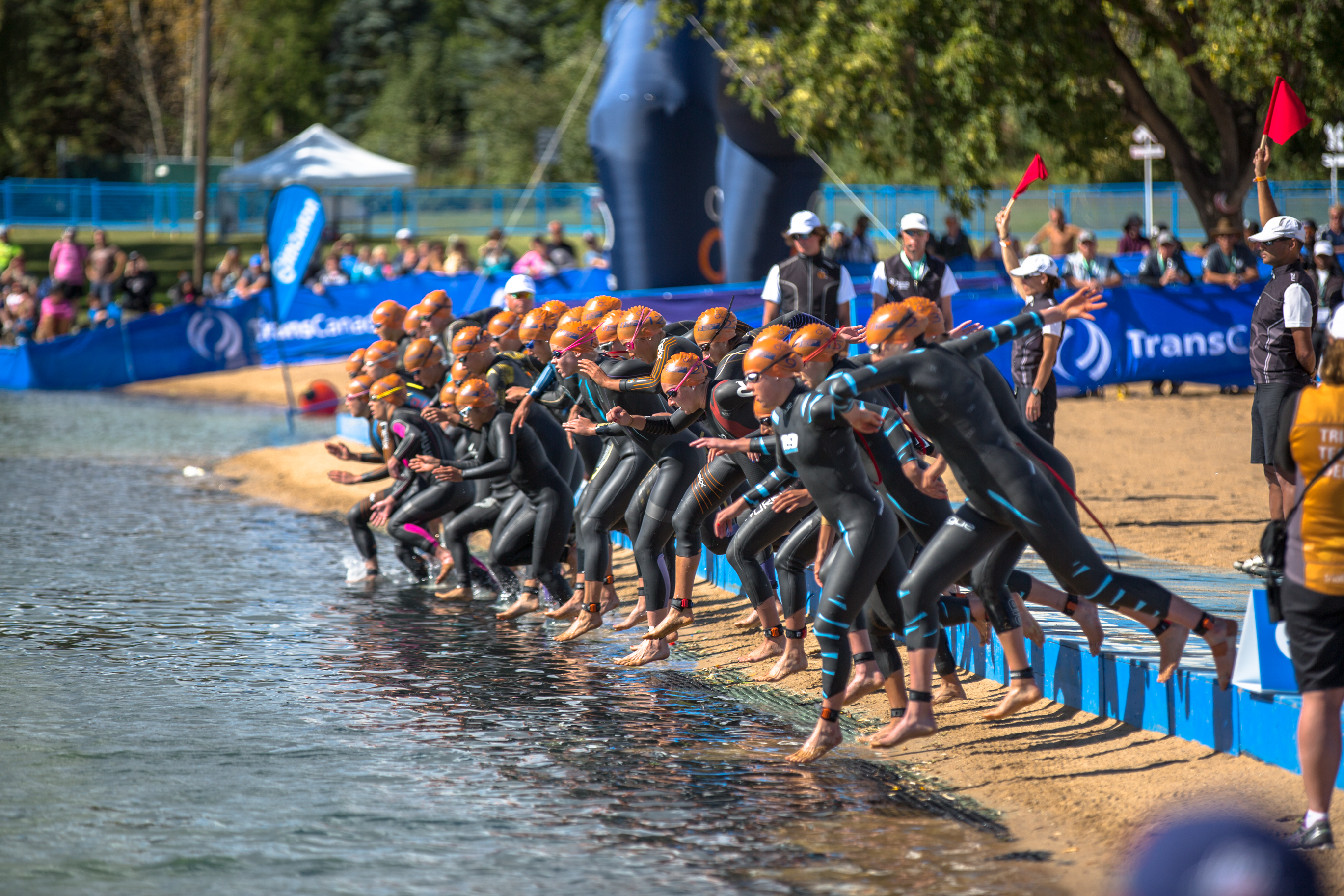 U23 Women Championship